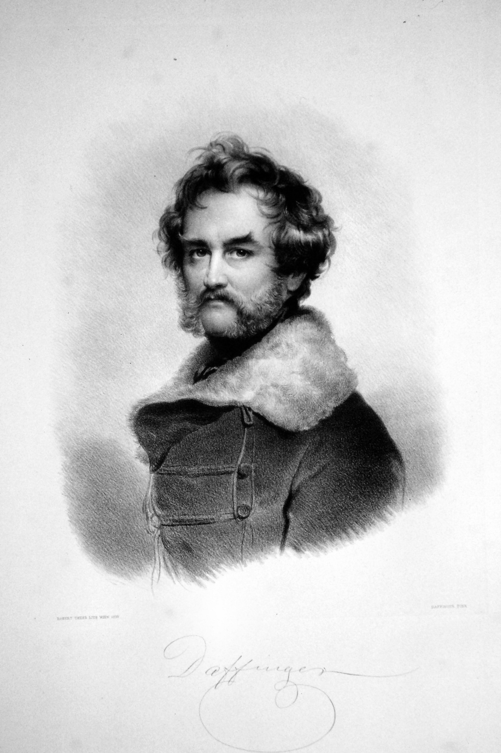 Portrait of Moritz Daffinger